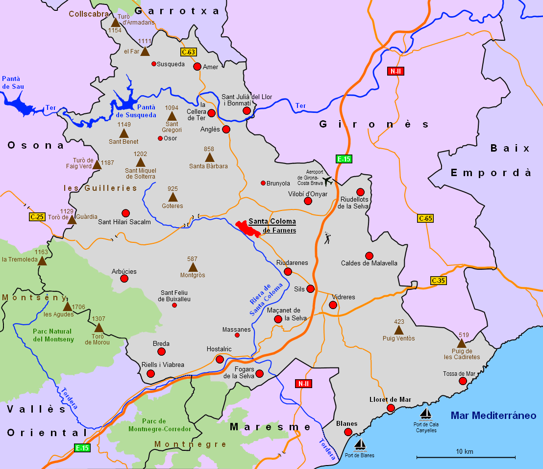 Map of the comarca Selva, Catalonia, Spain